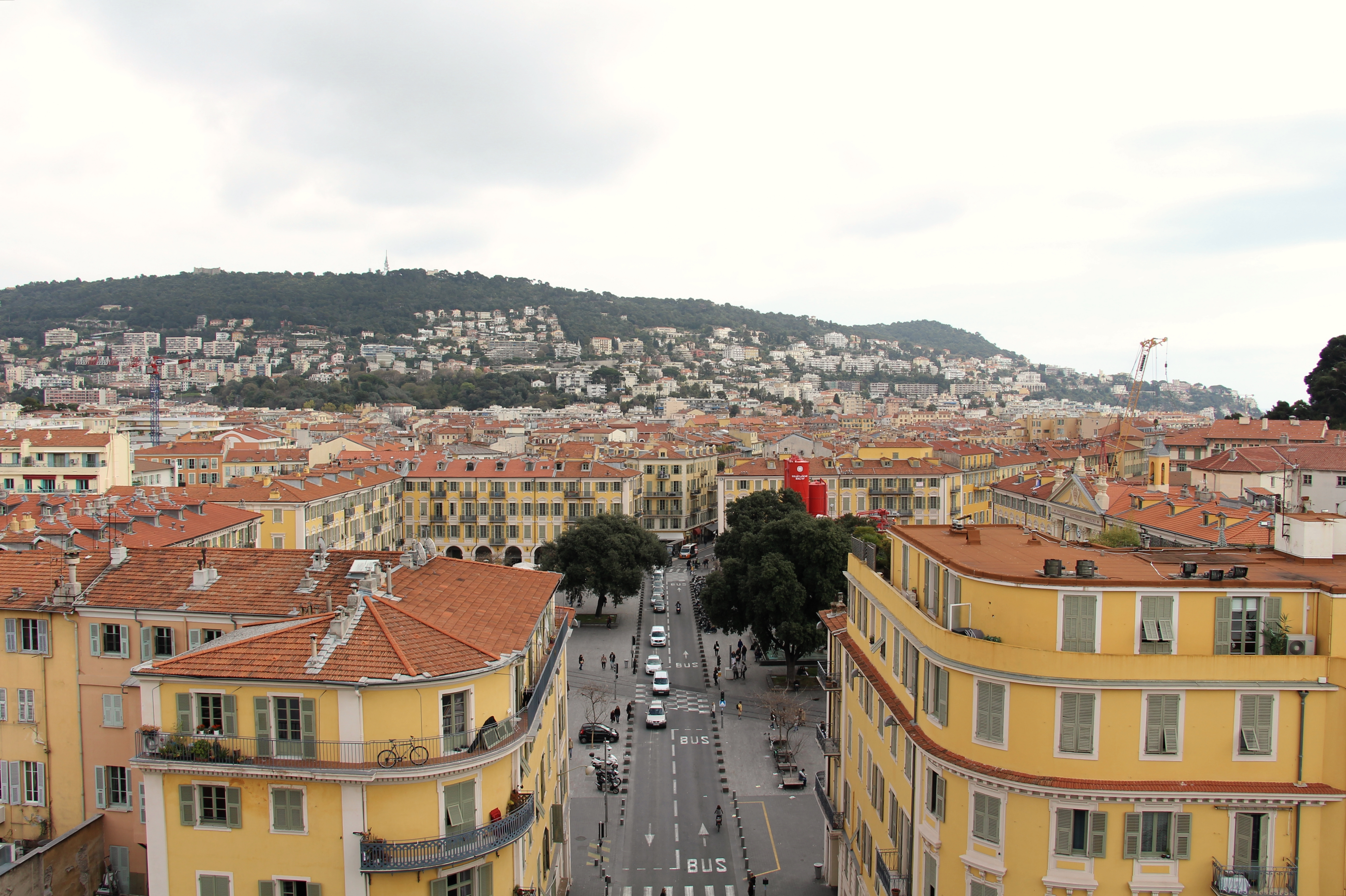 View of Place Garibaldi (foreground) and the distict of port and the Mount Alban (background) in Nice, France, viewed from the terrace of Mamac, on March 30, 2016.